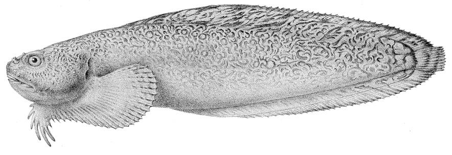 Liparis pulchellus